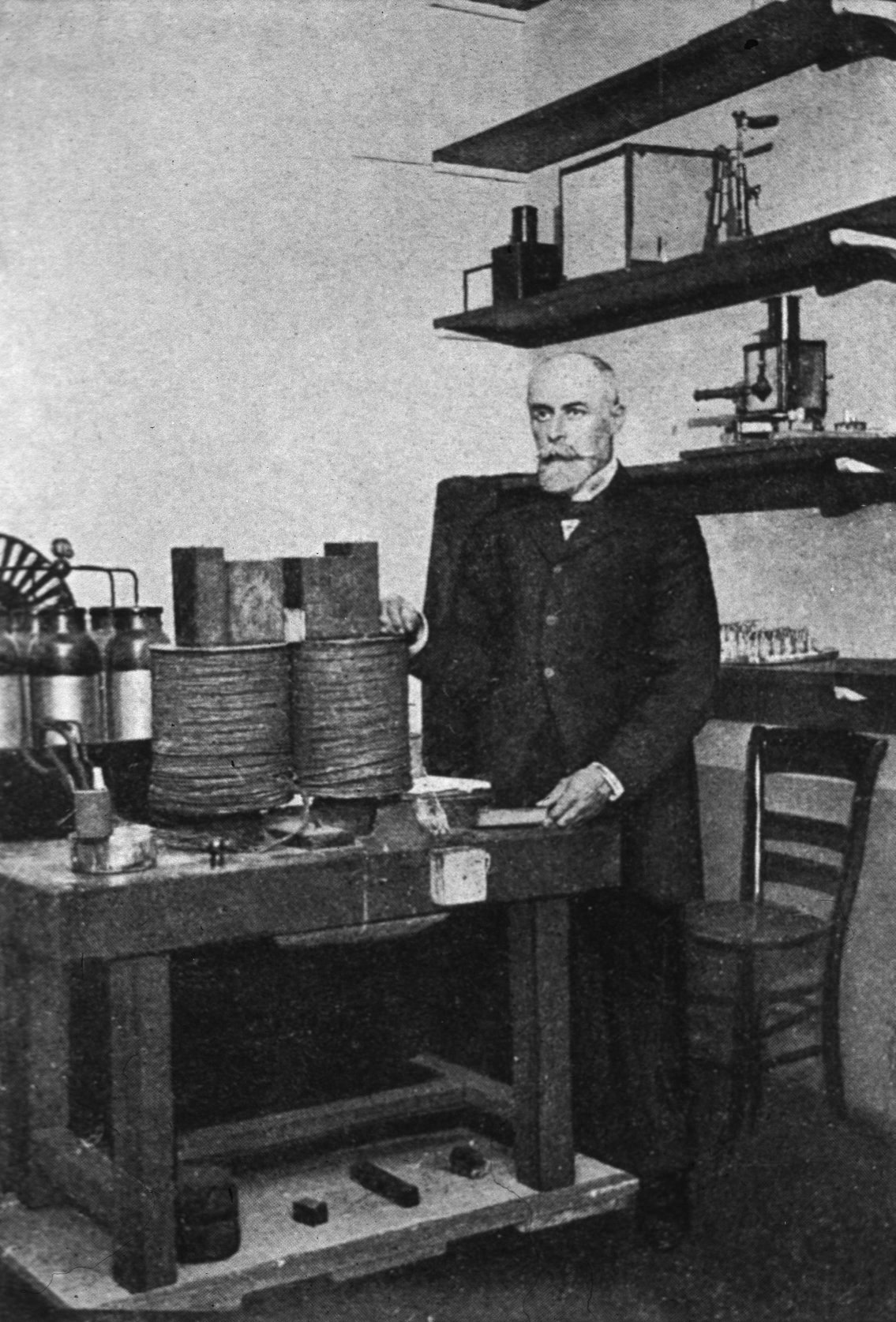 M. Becquerel and the Experiment with the Magnet